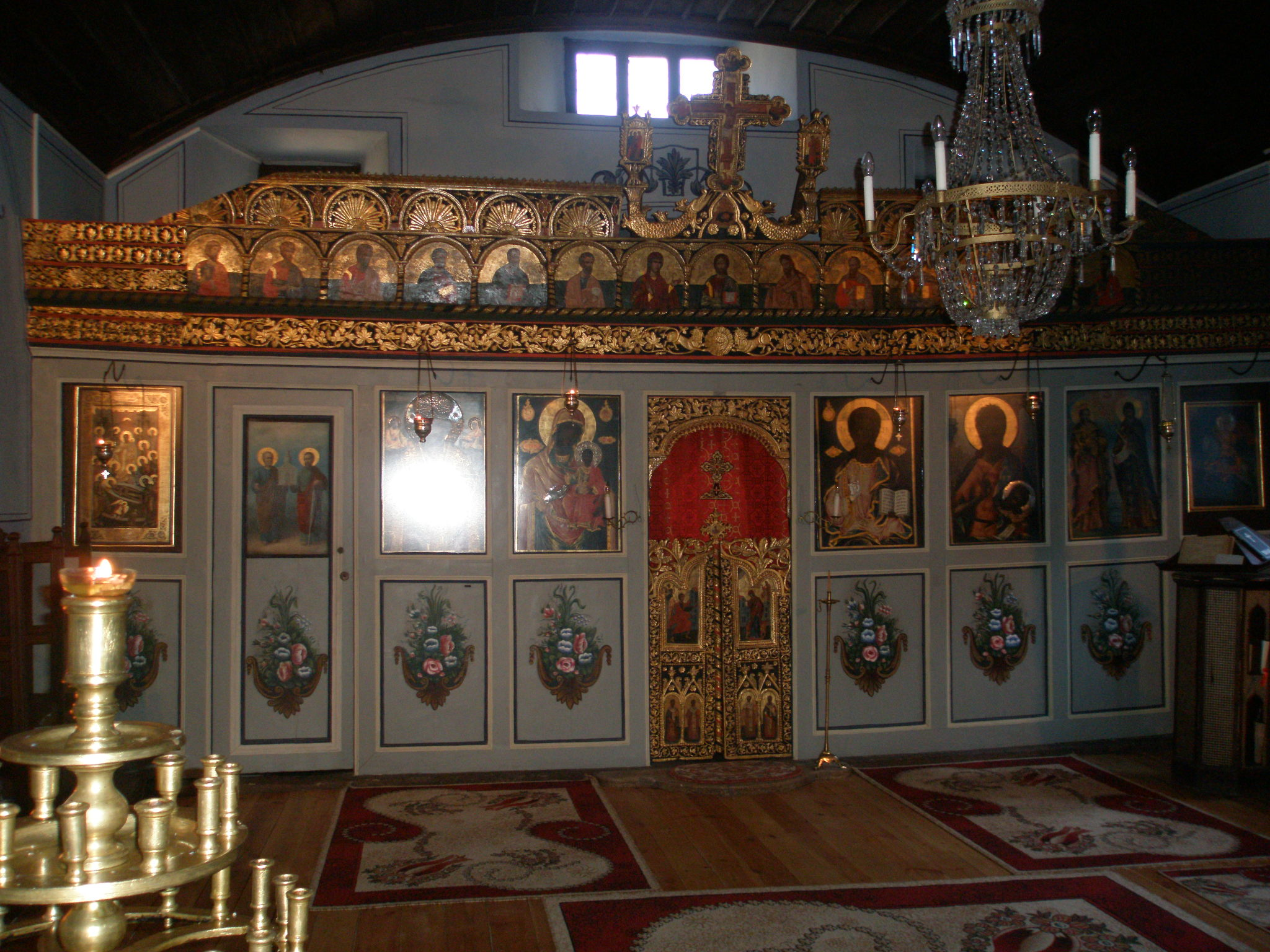 иконостасът